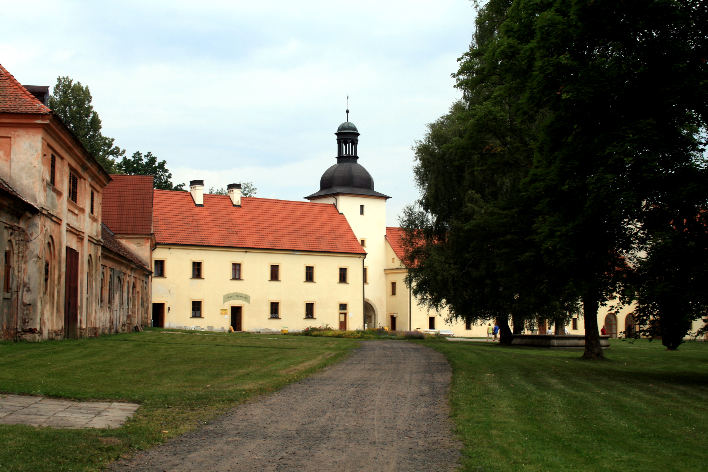 Premonstratensian monastery Teplá, west Bohemia Czech Republic